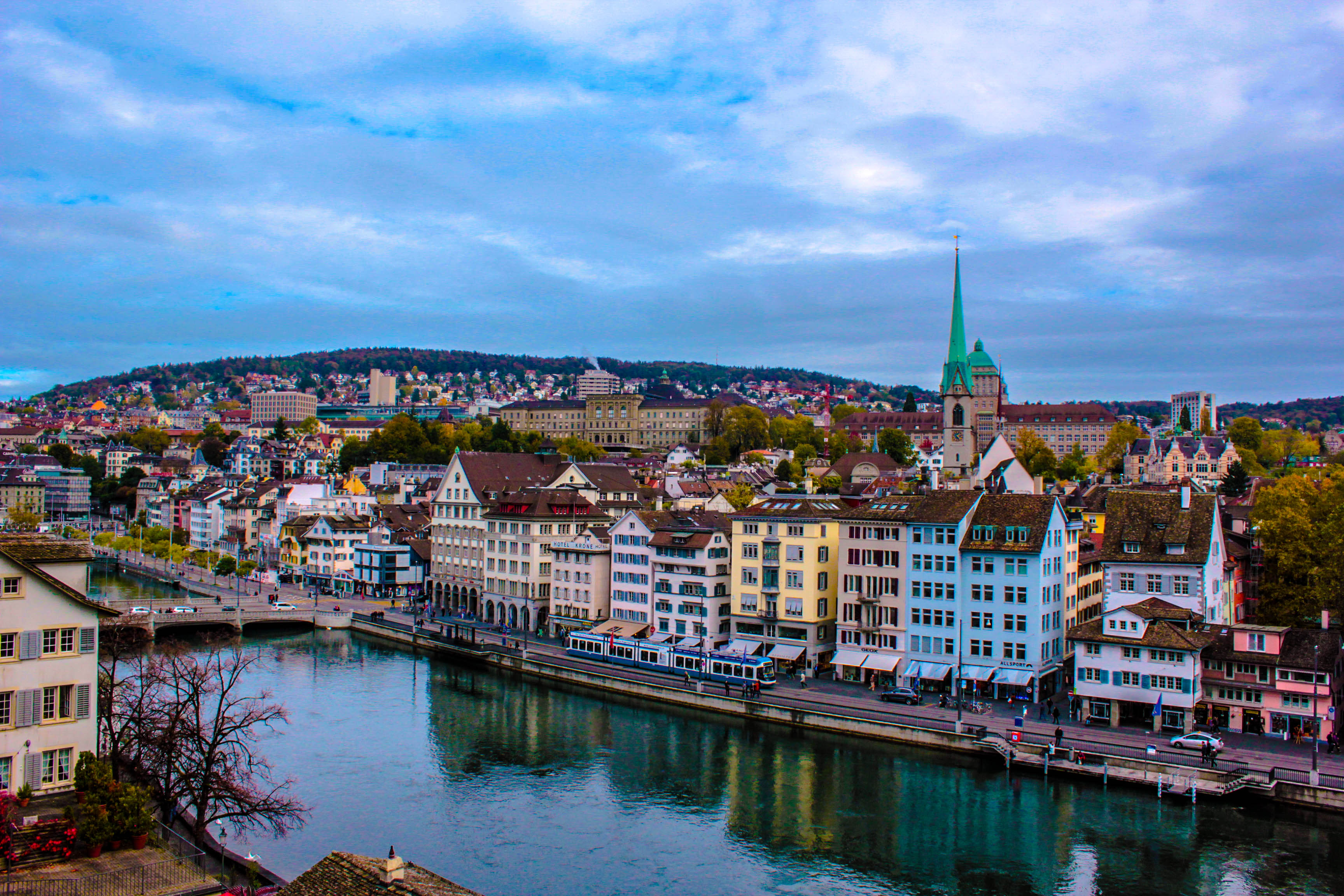 View to Zürich